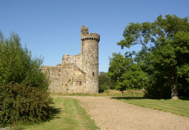 Fethard castle, Co. Wexford. This was built by Christ Church Canterbury after they had been granted the borough of Fethard by Hervey de Montmorency. However, it had belonged to the Bishop of Ferns before the Norman conquest of 1169, and he successfully reclaimed it. It was inhabited until 1922.